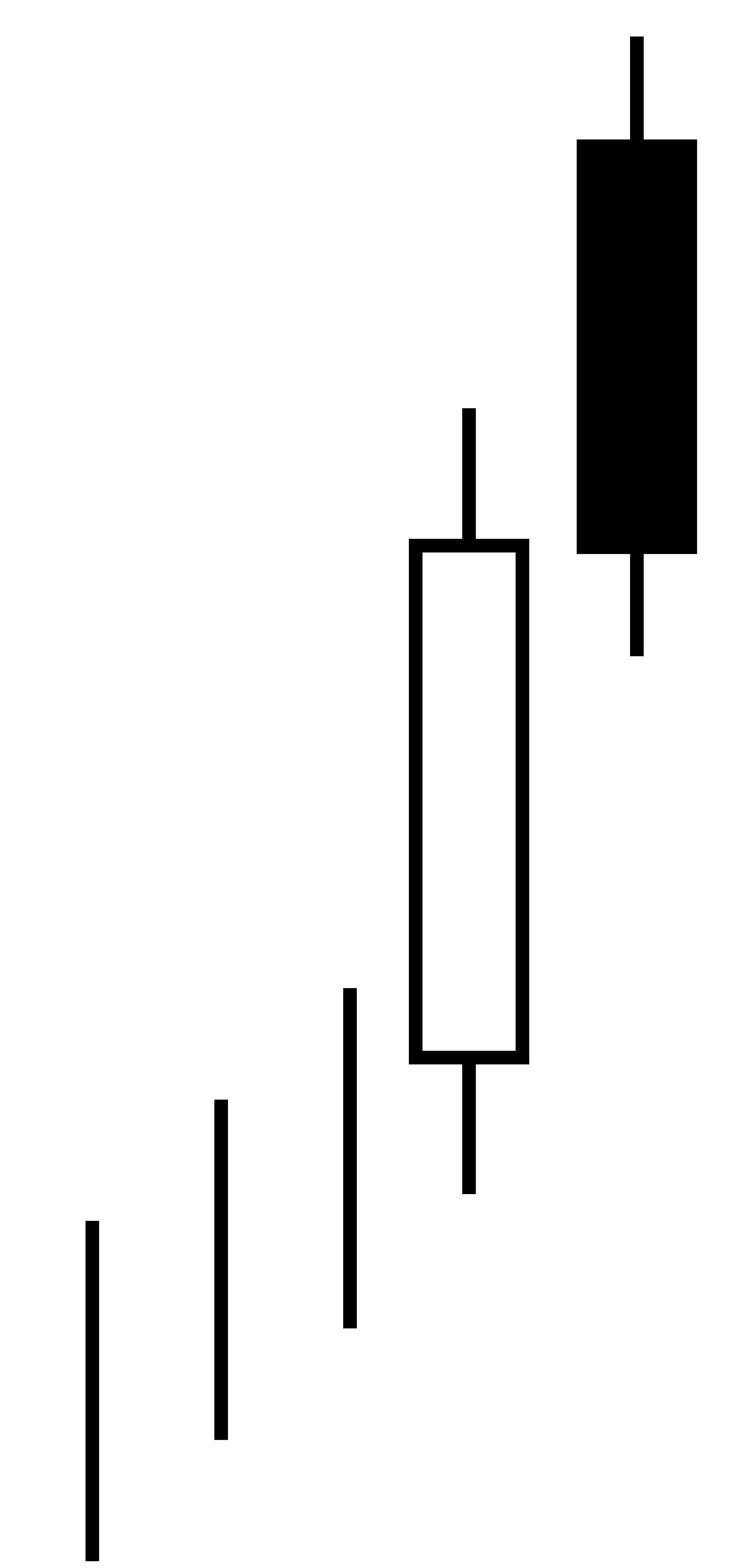 Bearish meeting lines